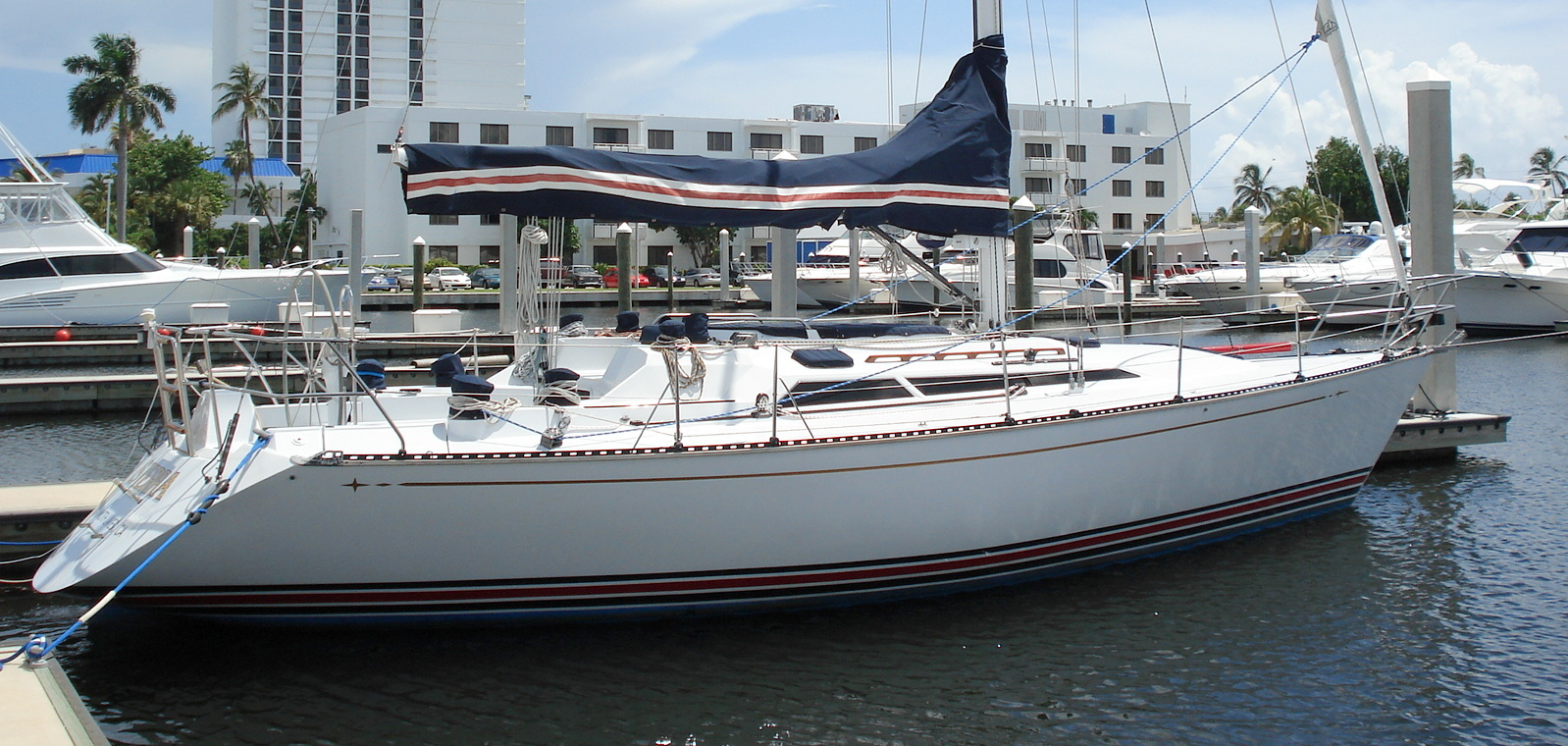 A view of a C&C 37/40+ at the dock.